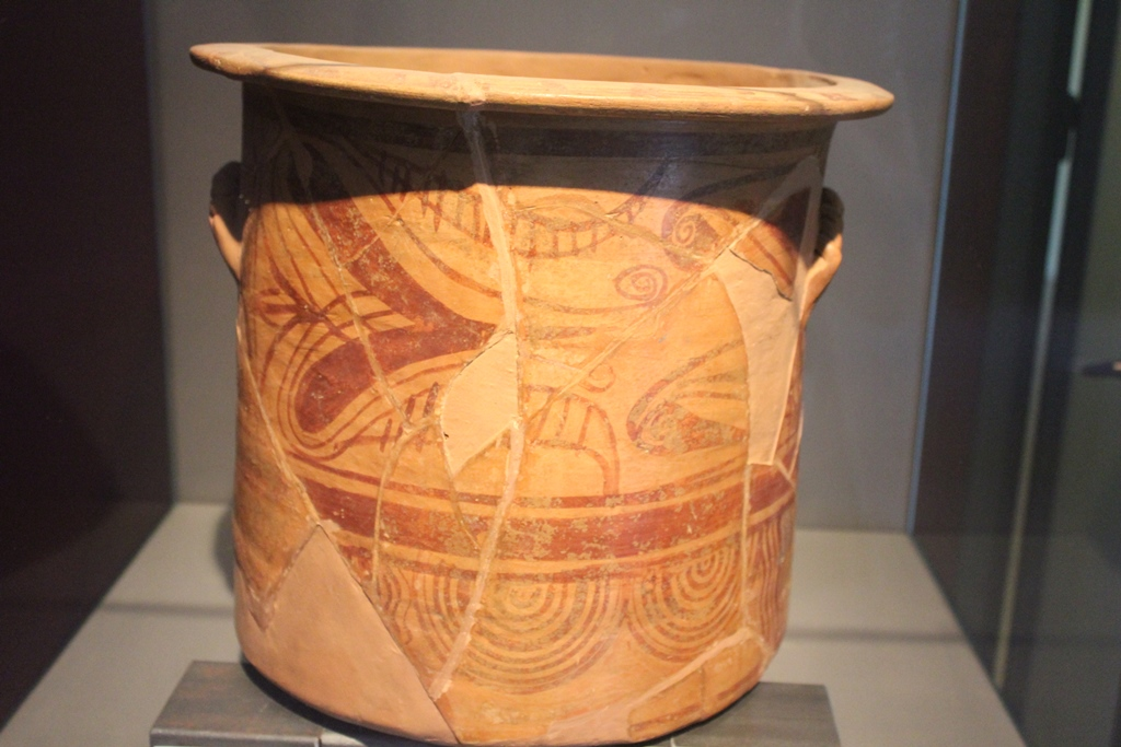 Calat de ceràmic ibèric al Museu Torre Balldovina